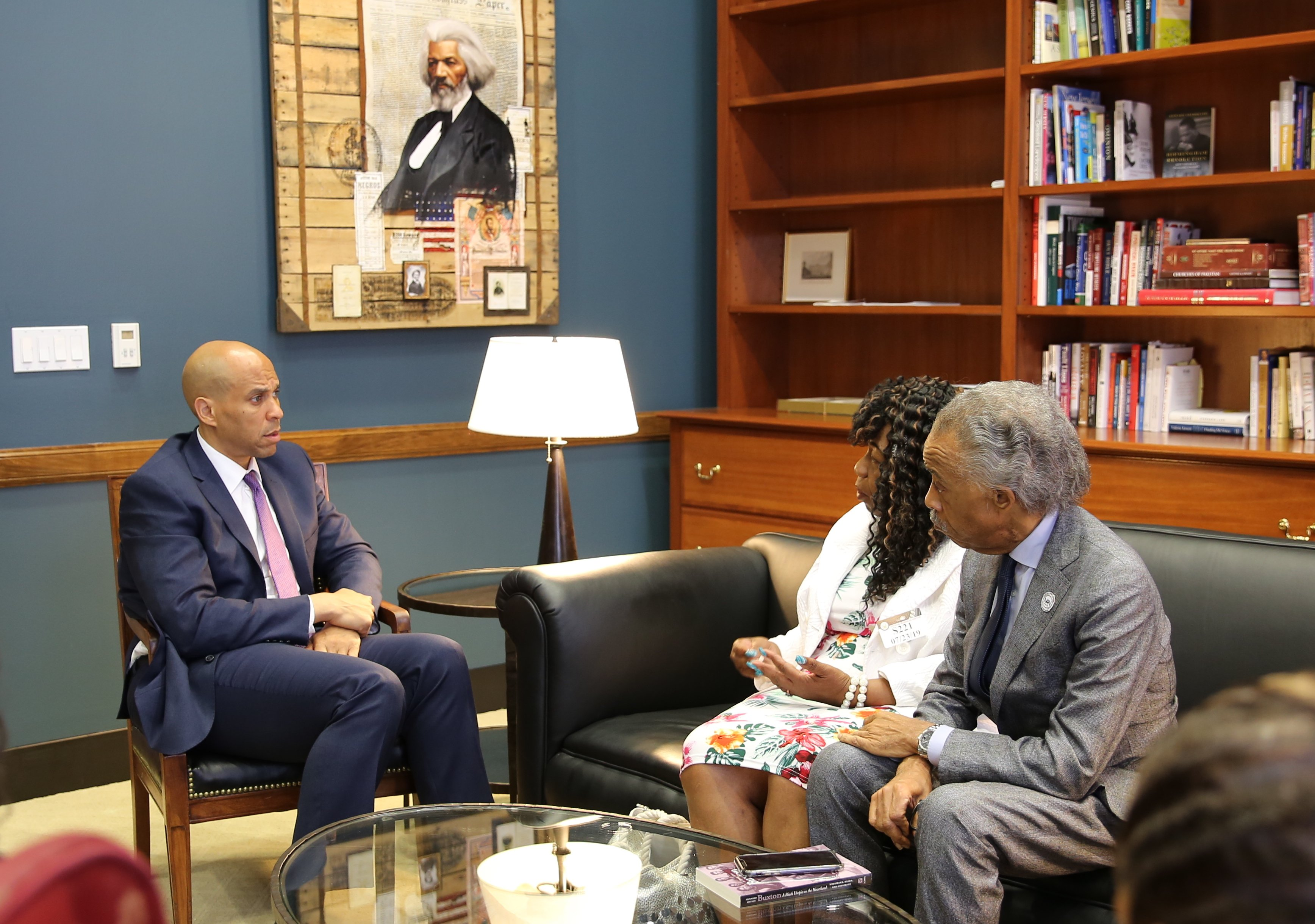 Today, I had the privilege of meeting with @RealGwenCarr and @TheRevAl to discuss the role of Congress in police oversight and accountability. For every name like #EricGarner, there are so many we don’t know. We walk together in the pursuit of justice.